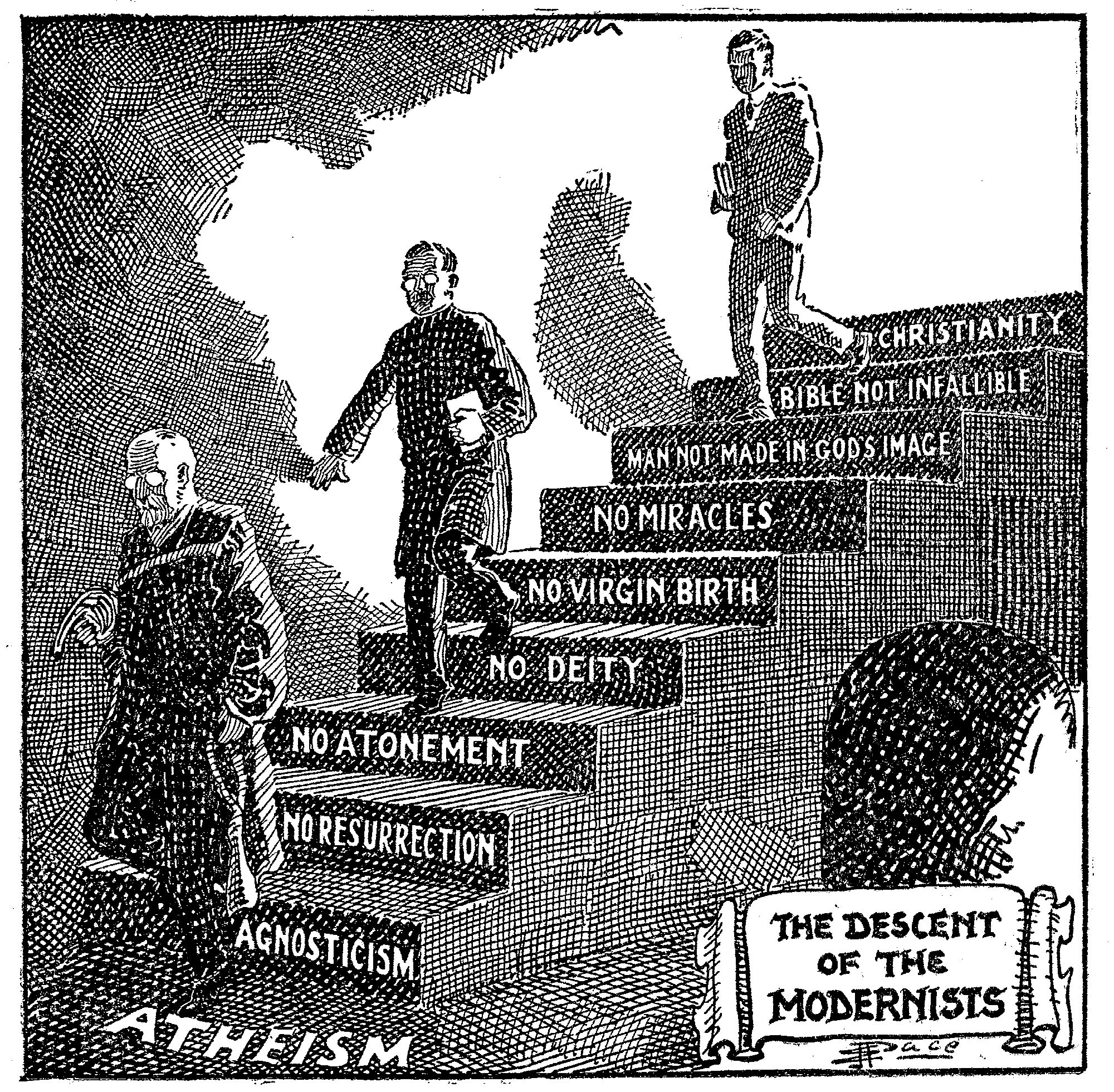 "The Descent of the Modernists", by E. J. Pace, first appearing in his book Christian Cartoons, published in 1922.